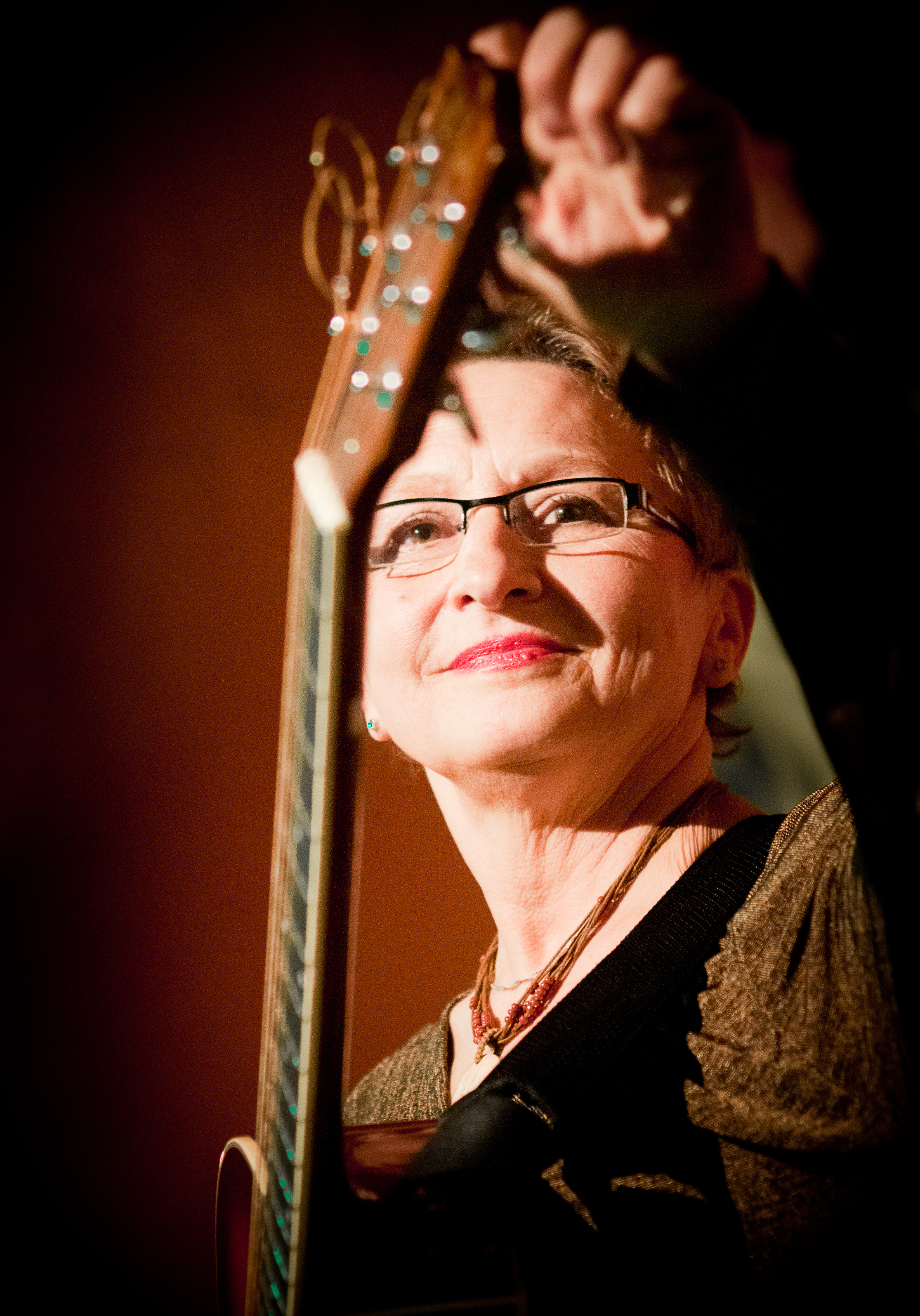 Dagmar Andrtová-Voňková tuning Guitar at Evžen, Opava, Czech republic Dagmar Andrtová-Vonková ladí kytaru v kavárně Evžen v Opavě